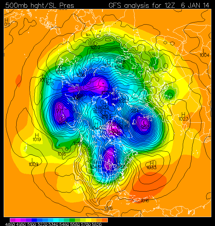 The jet stream for January 6, 2014 (pale blue in map to right) follows a wavy pattern over the whole Northern hemisphere, and the path of the jet stream is out of the north over the central U.S., bringing cold air southward from the Arctic and producing record cold temperatures for the eastern half of the U.S.. Regions of light blue color show the counter-clockwise path of the jet stream for January 6, 2014. The map in white near the bottom center shows the outline of the U.S.